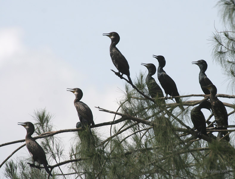 Indian Cormorant Phalacrocorax fuscicollis in Kolkata, West Bengal, India.